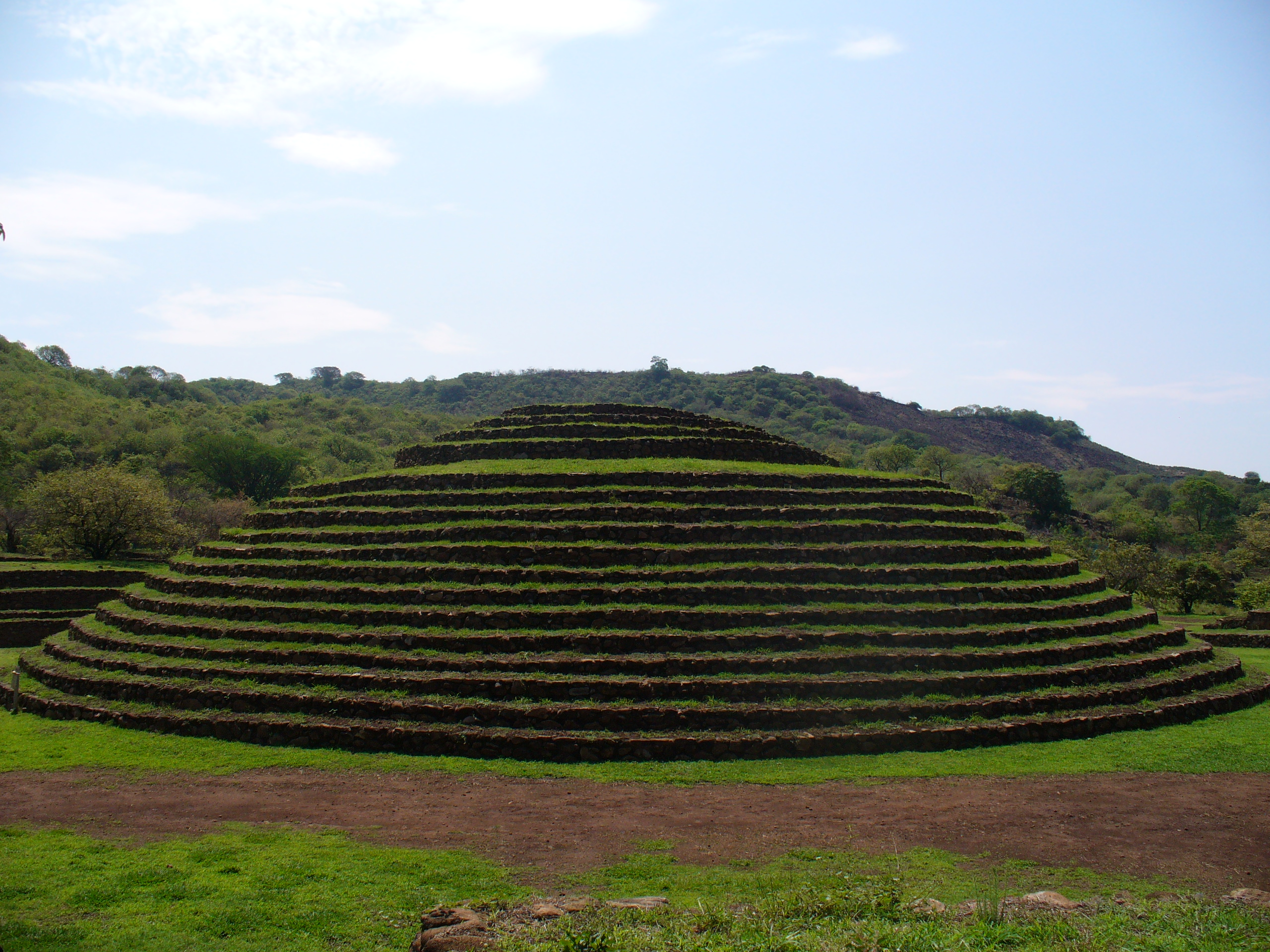 The circular pyramid known as "La Iguana", in the Guachimontones site outside Teuchitlán, Mexico